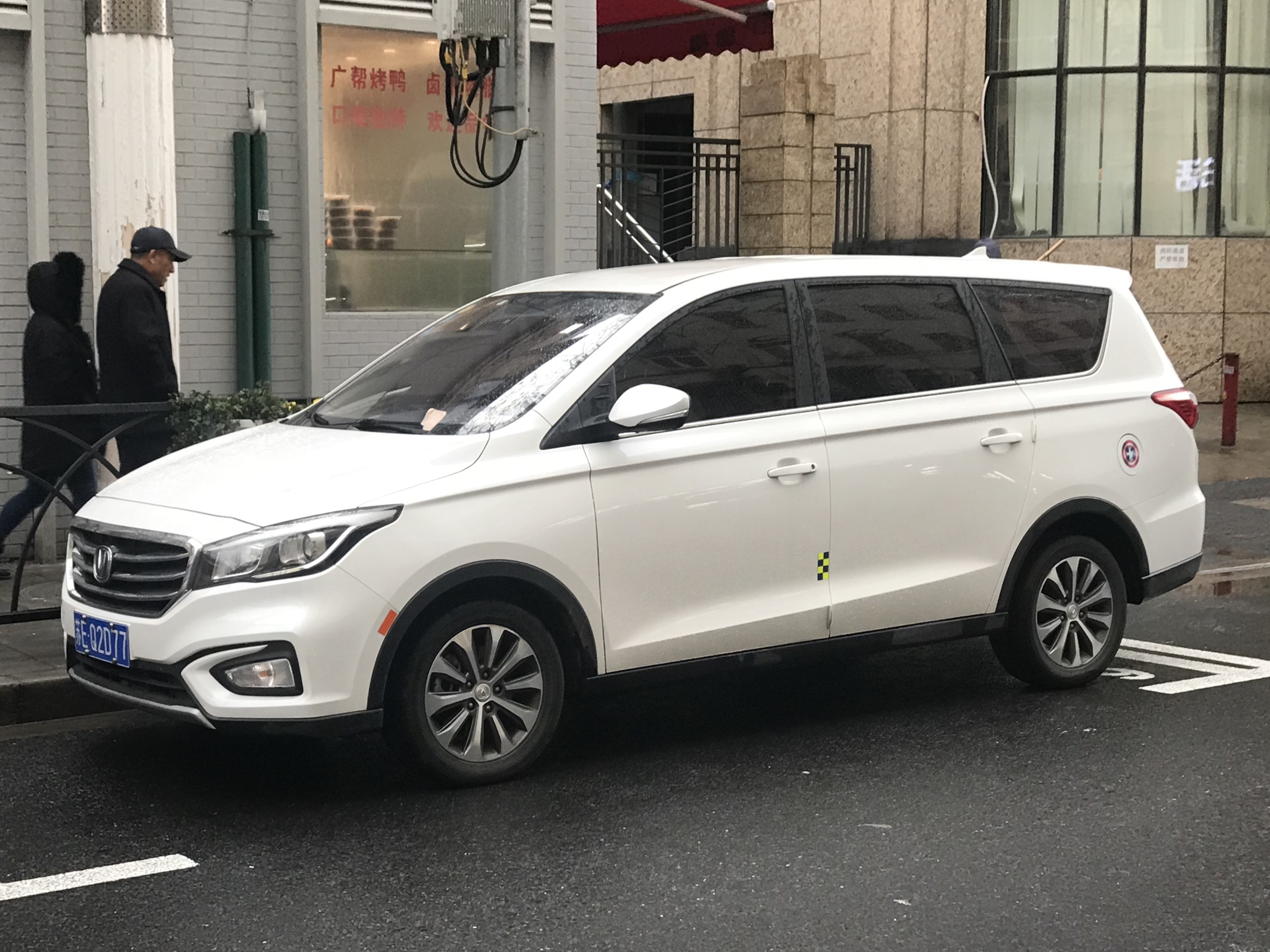 Changan Linmax front